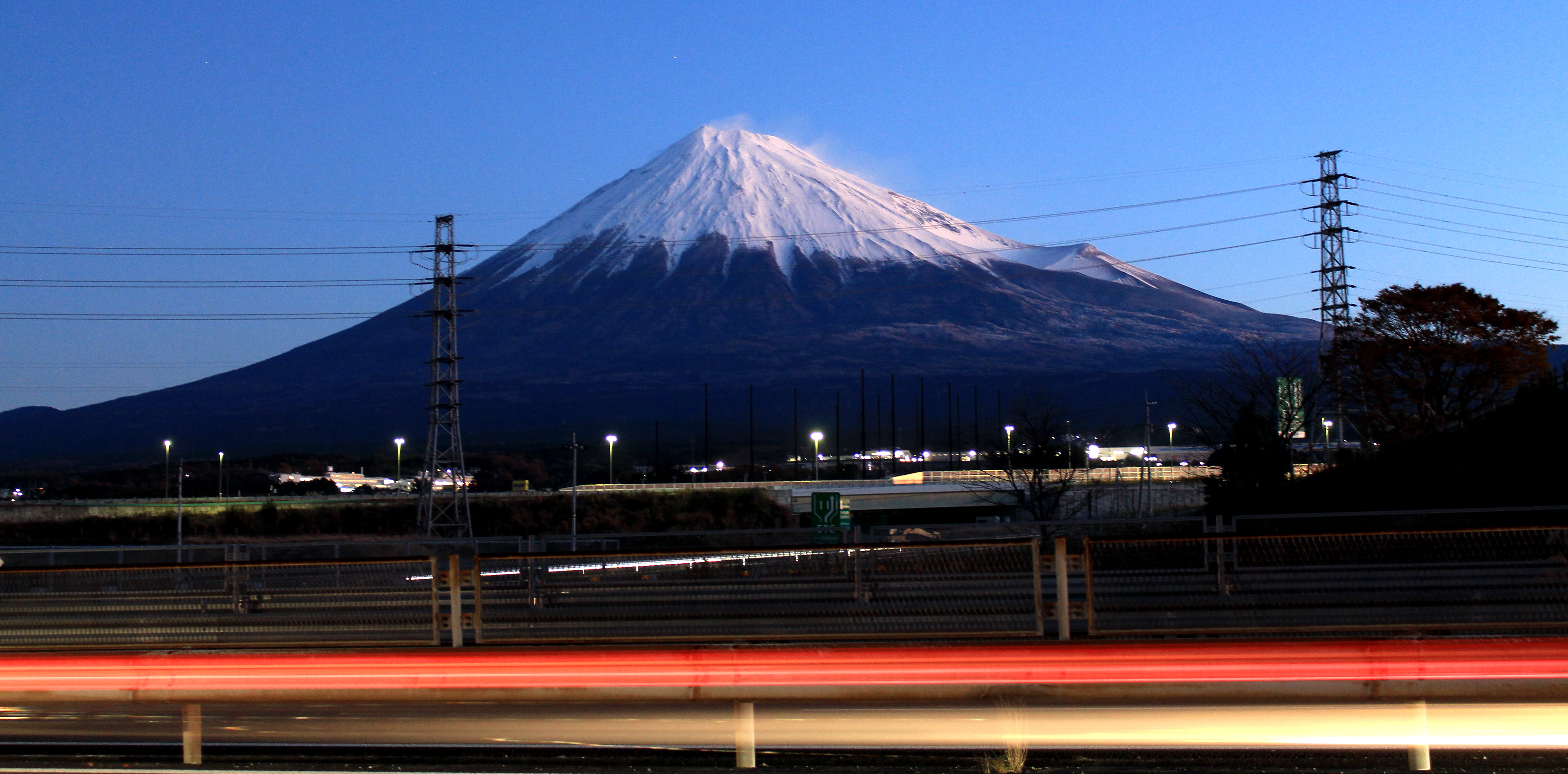 Mount Fuji seen from Shin-Fuji Interchange before sunrise in Fuji, Shizukoa prefecture, Japan.